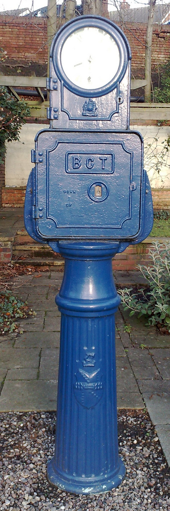 This Birmingham Corporation Transport Bundy Clock has been preserved at Walsall Arboretum.